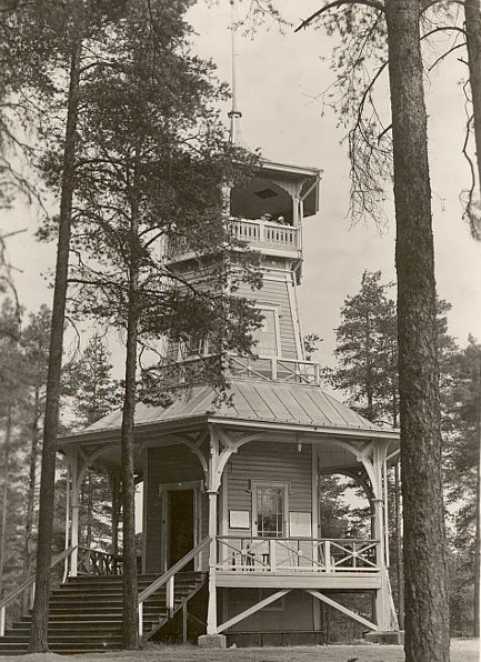 Harju old observation tower in Jyväskylä, Finland